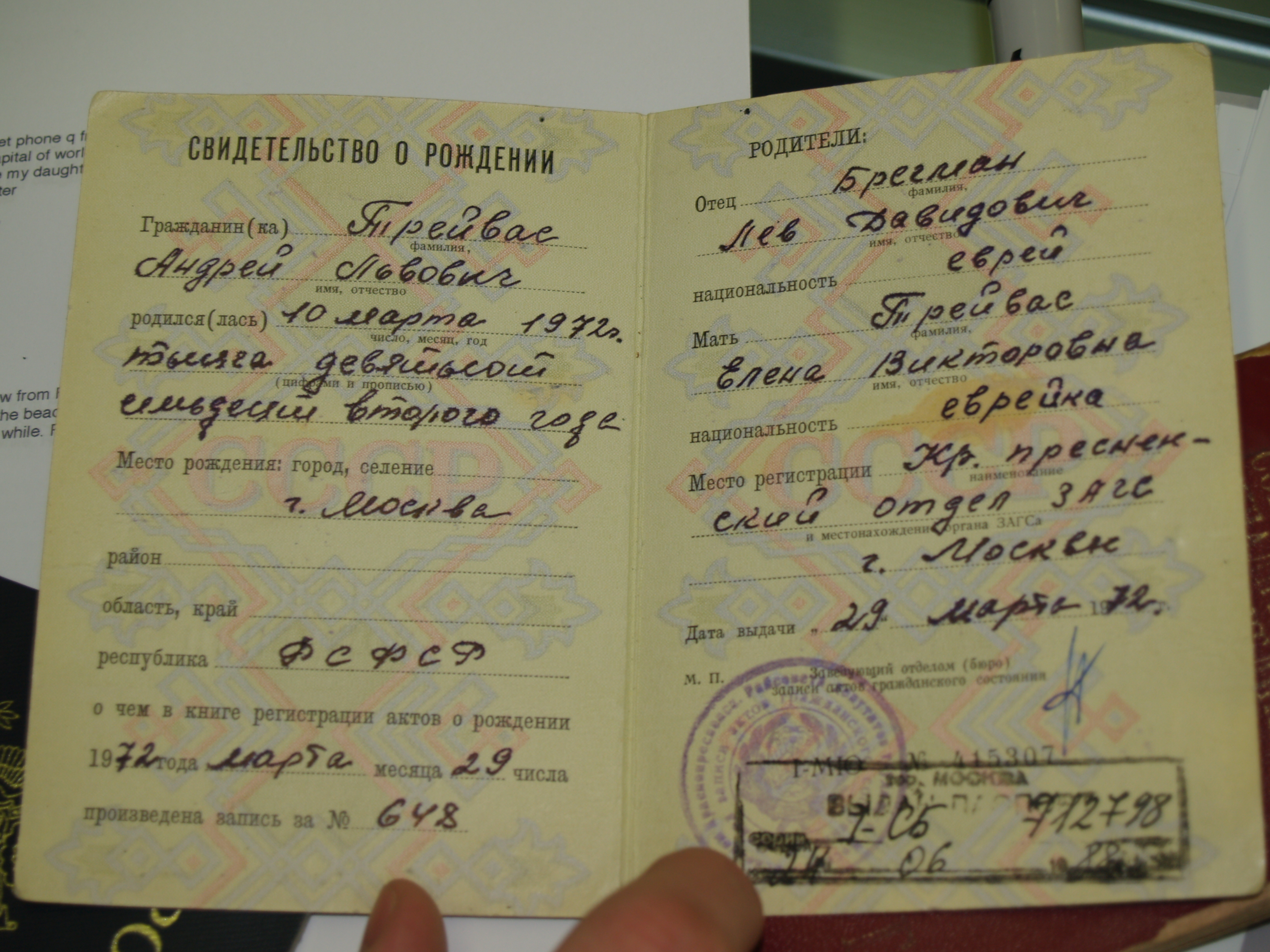 A page from the Soviet birth certificate of Michael Lucas (porn star), showing information about his birth. It shows that his birth name is Andre Treivas, the latter being his mother's maiden name (his father's last name is listed as "Bregman"). It also notes that Treivas' patrents' nationality is "Jewish". Hi, I read cyrillic, as a matter of fact. I transliterate his name in the documents supplied as "Andrei Lvovich Treivas" (or "Treyvas" would work as well), "Lvovich" being Mr. Treivas' patronymic. Also, did a quick search and found this link to a book that may help: [1]. Once you get there, click the "see inside" button at the bottom of the cover art. His name is mentioned in the first sentence. Hope that meets everyone's needs. IronDuke 23:55, 20 February 2008 (UTC) I also can read it, and am seeing the same as IronDuke. He seems to have a father Lev Bregman and a mother Elena Treyvas - not sure why he got the mother's name, but it's clear enough. I also agree with WJB regarding rules. Orderinchaos 10:48, 22 February 2008 (UTC) Treyvas is not obviously Jewish. Bregman is. It was fairly common to attempt to minimize discrimination by giving the mother's surname if it sounded less Jewish. NYC JD (talk) 23:48, 27 August 2009 (UTC)